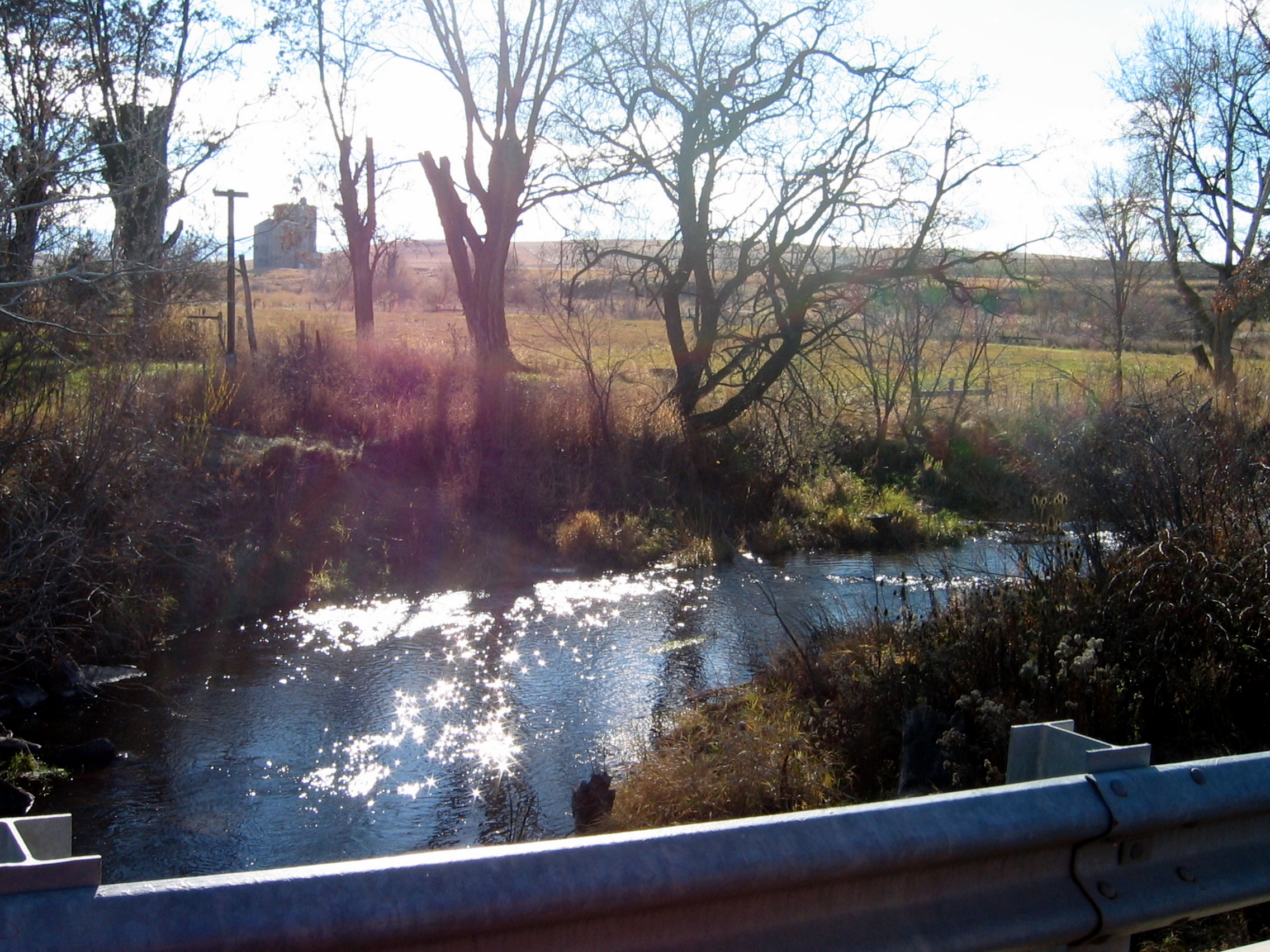 Birch Creek in Umatilla County, Oregon flowing over Hoeft Rd, south of Pendleton Country Club. The Birch Creek comes into play on eight holes of the golf course.